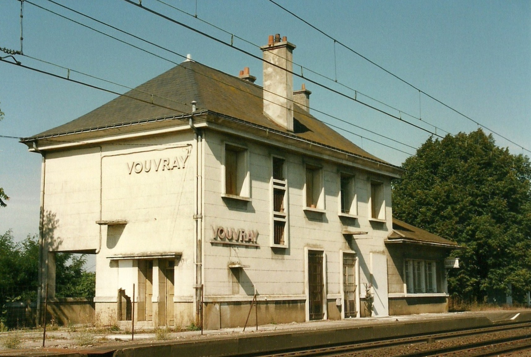 Gare de Vouvray, France